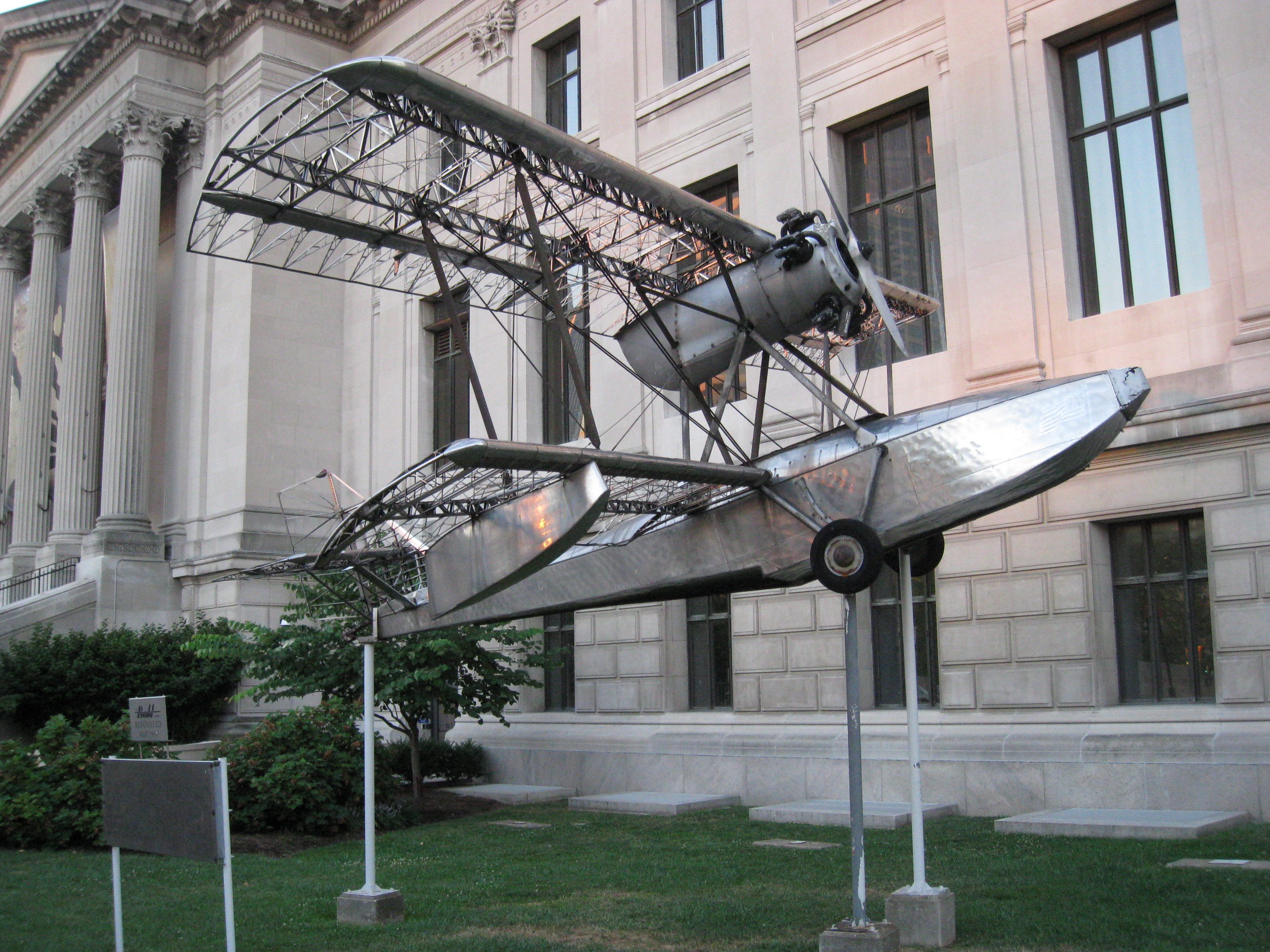 The Budd BB-1 Pioneer airplane in front of the Franklin Institute in Philadelphia, PA. It was designed by Enea Bossi of the Budd Company, and was the first stainless steel aircraft ever built. It has been on display in front of the Franklin Institute since 1935.